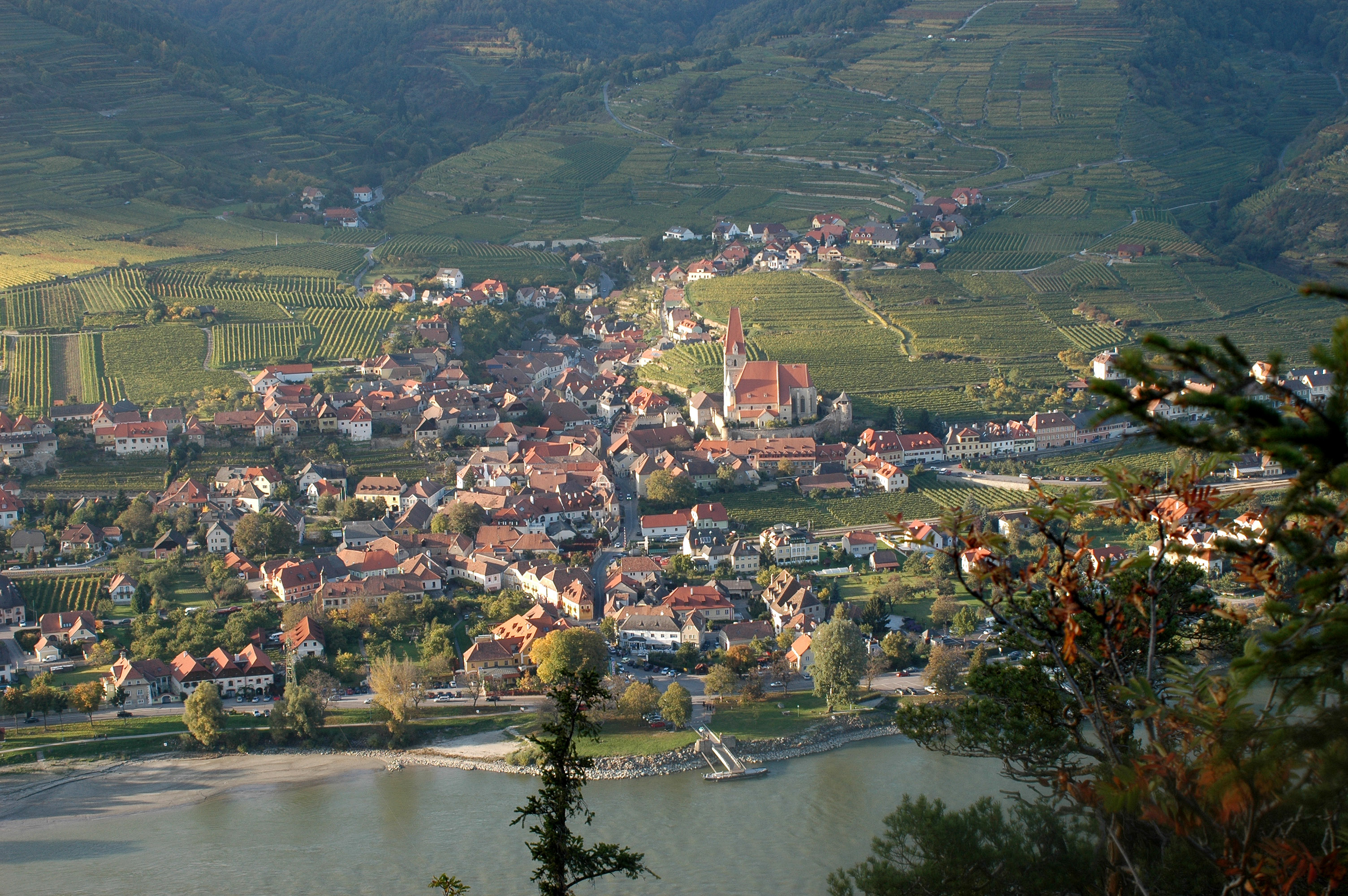 Weißenkirchen in der Wachau is a town in the district of Krems-Land in the Austrian state of Lower Austria.